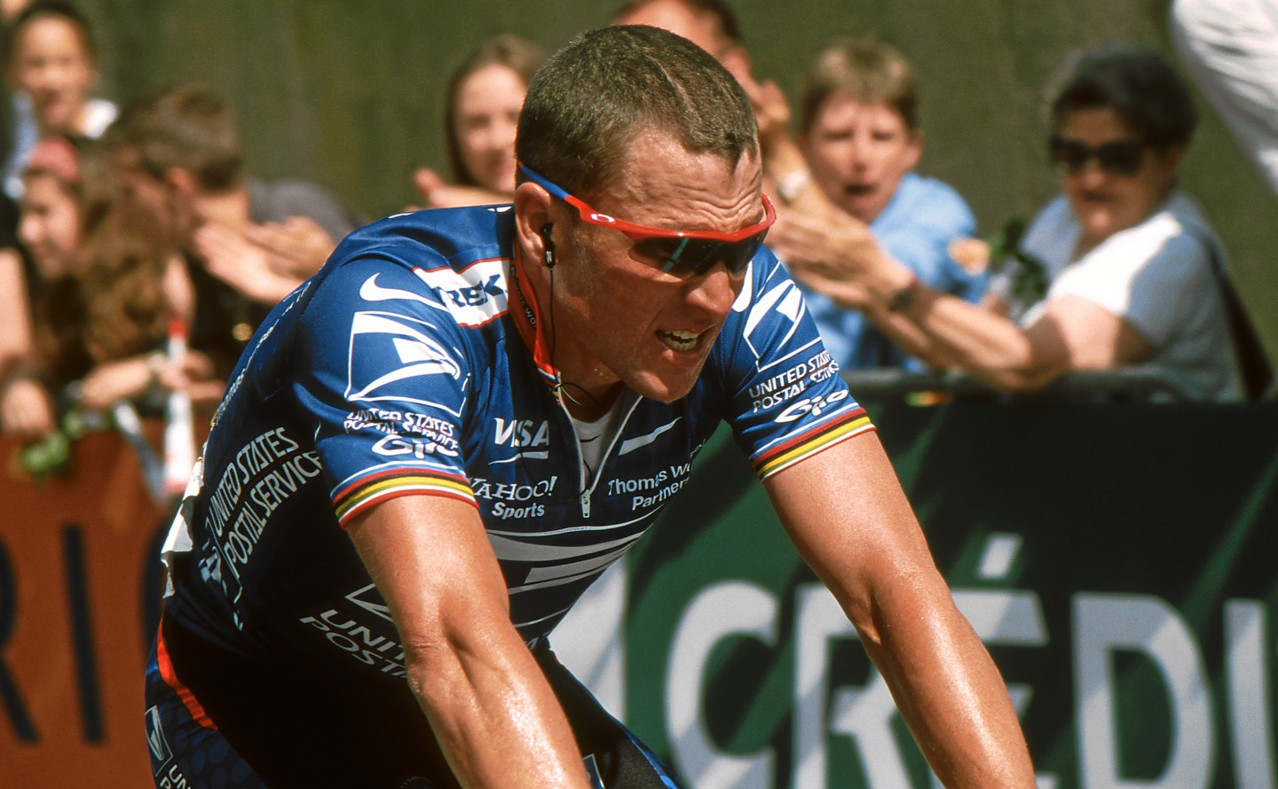 Lance Armstrong finishing 3rd in Sète, taking over the Yellow Jersey at Grand Prix Midi Libre 2002